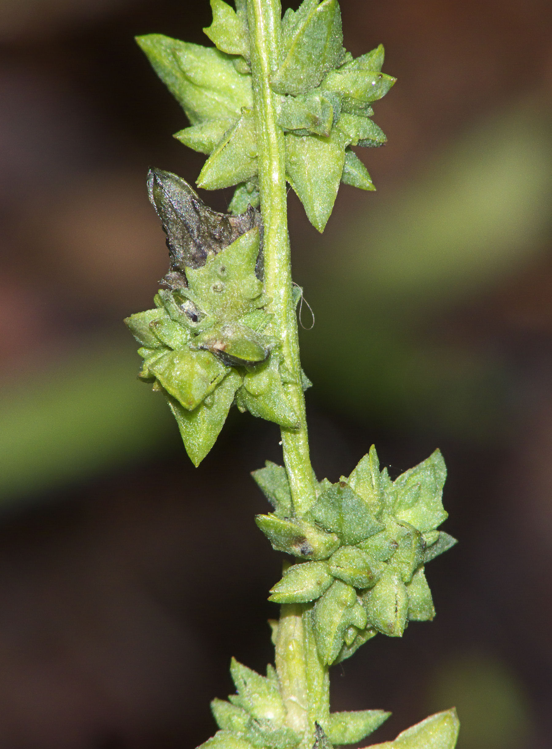 Atriplex patula inflorescence